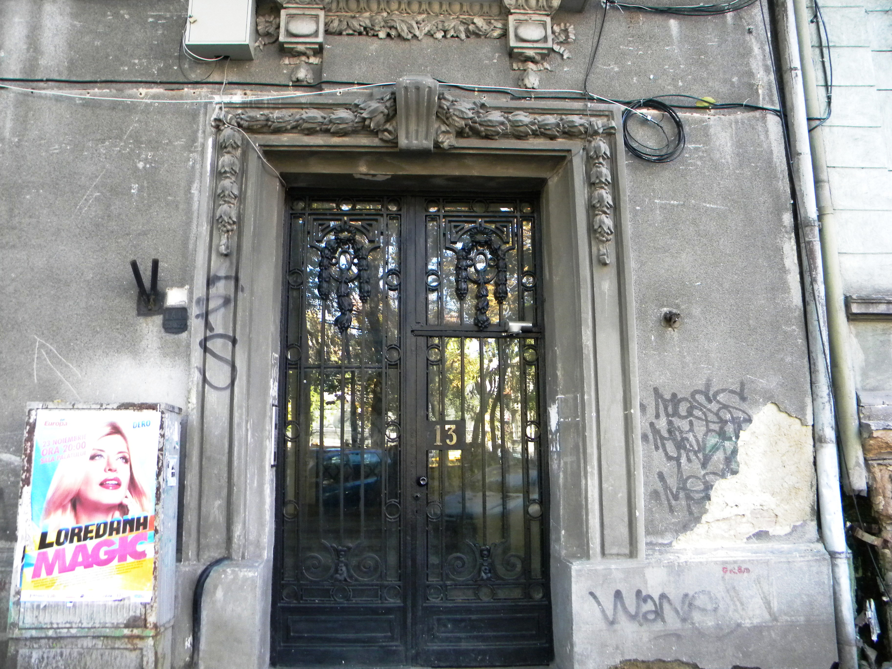 Bucuresti, Romania, Piata Pache Protopopescu, nr. 13, sect. 2, (B-II-m-B-19487)